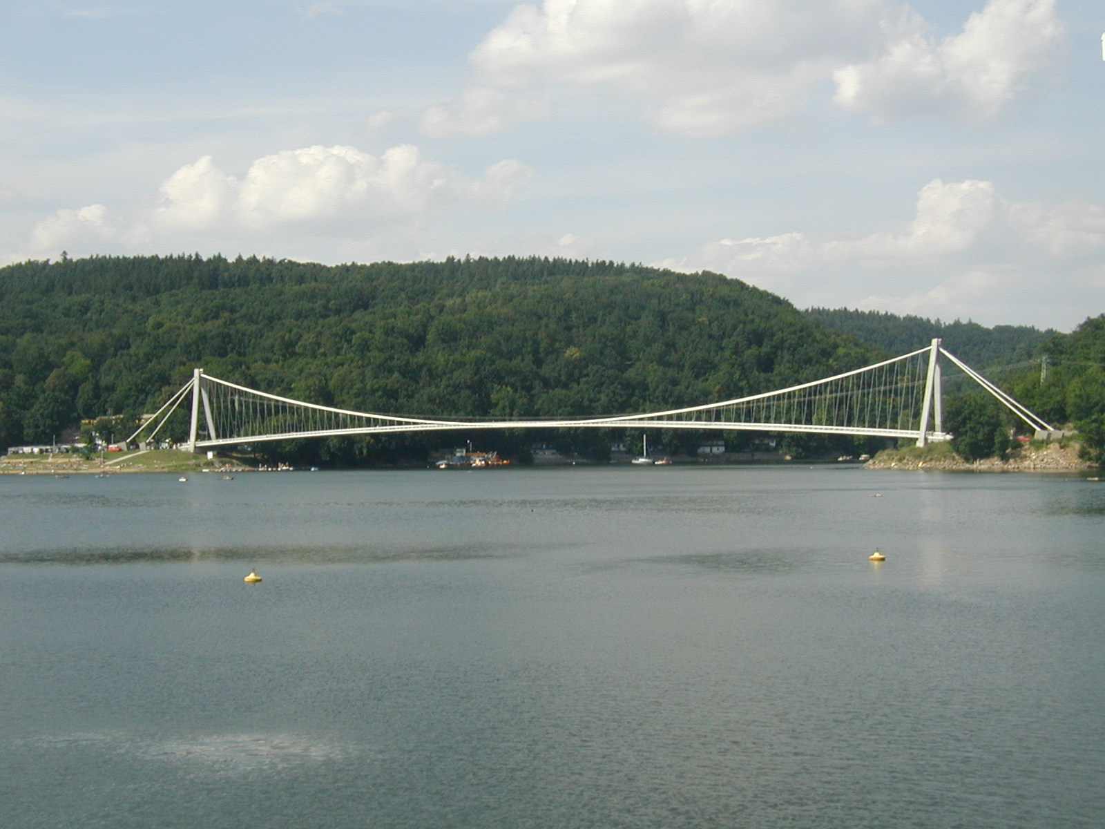 Swiss Bay Bridge, Vranov, the Czech Republic